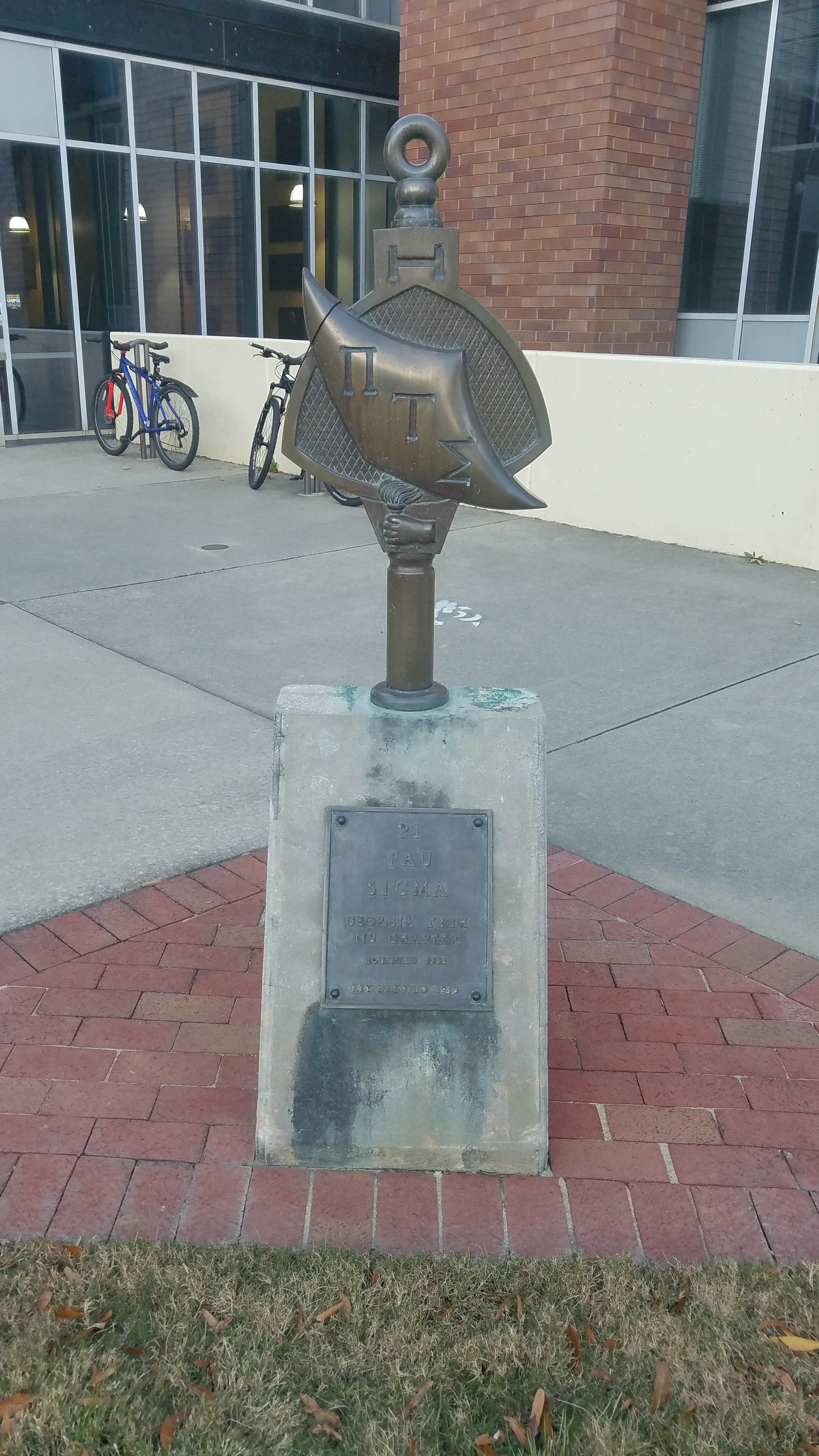 Marker for Pi Tau Sigma on the main campus of the Georgia Institute of Technology.